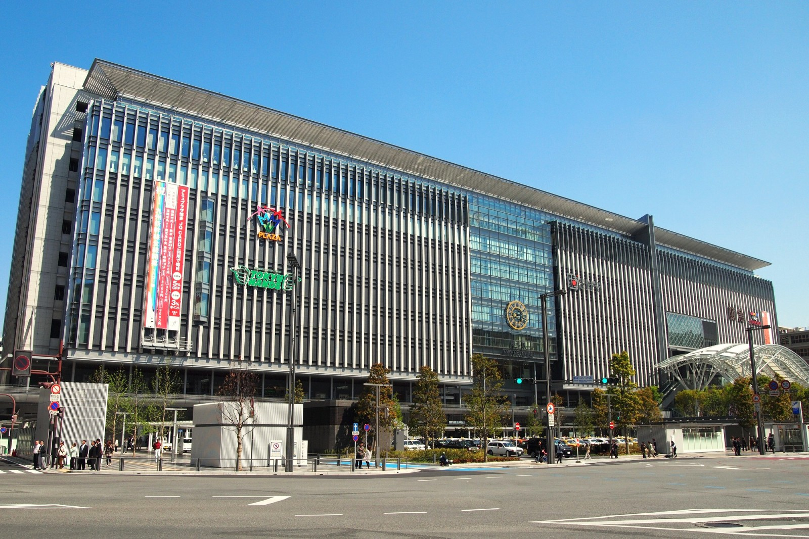 JR Hakata Station building "JR Hakata City" in March 2011